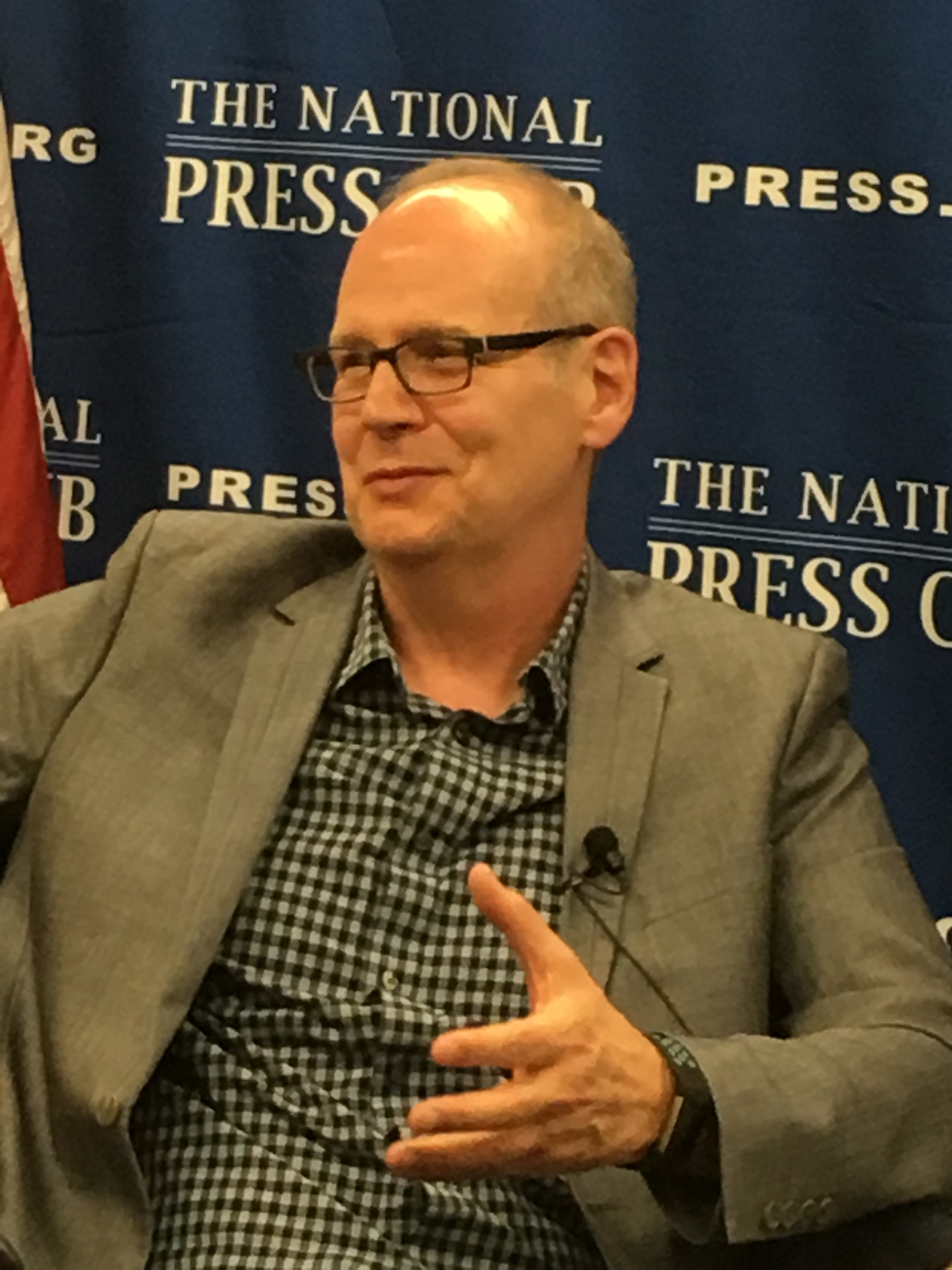 Cartoonist Rob Rogers at the National Press Club, Washington, D.C.